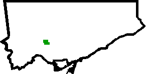 Locator map of Corso Italia-Davenport in Toronto, Ontario, Canada. Based off locator maps created by user Alaney2k.